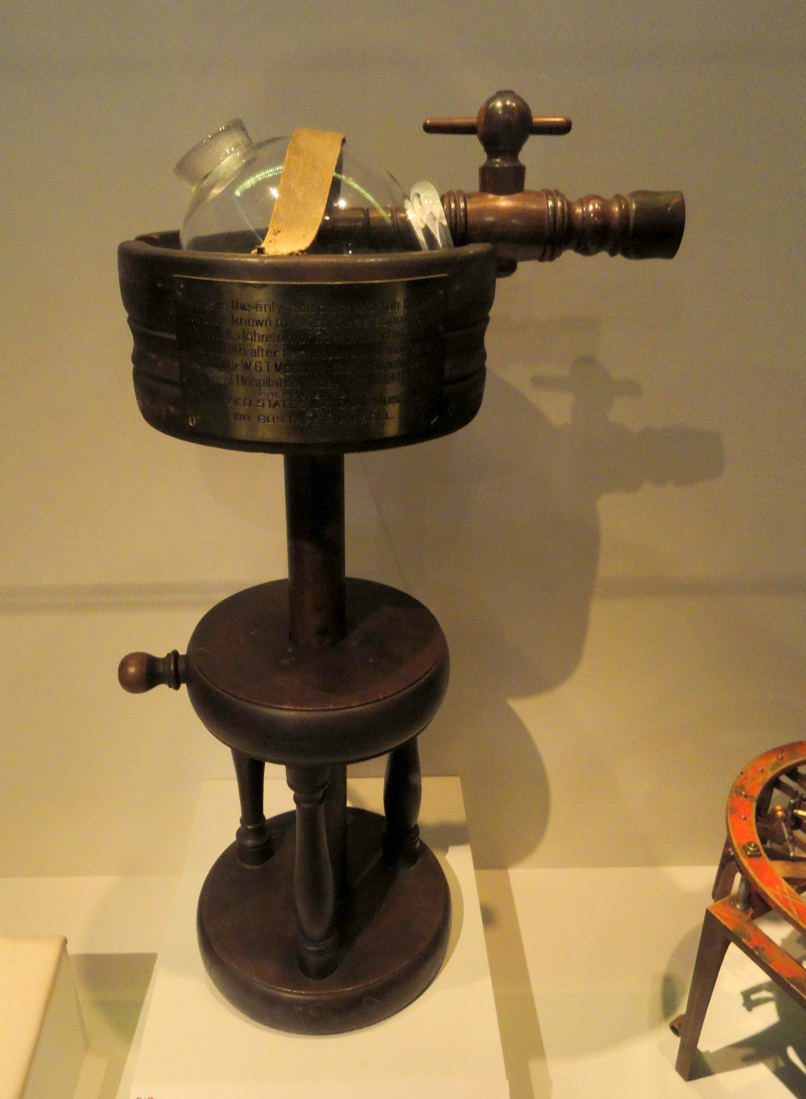 Exhibit in the National Museum of American History, Washington, DC, USA. This item is in the public domain because it is property of the national museum.